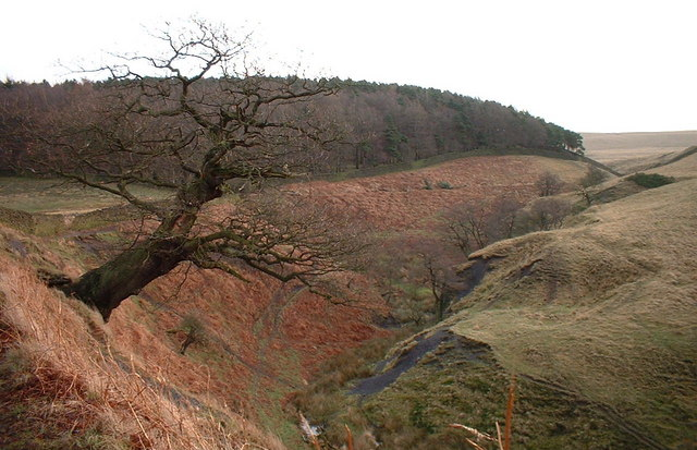 Cluse Hay, Lyme Park Knights Low woods in the Lyme Park estate. Note the exposed black shale exposed by erosion - this area is only a short distance from the now disused Poynton coalmining area.